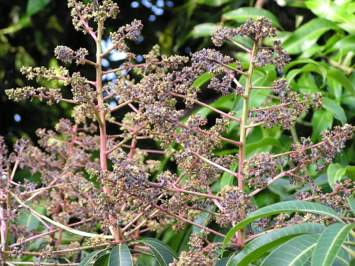 Oidium mangiferae infecting mango panicles